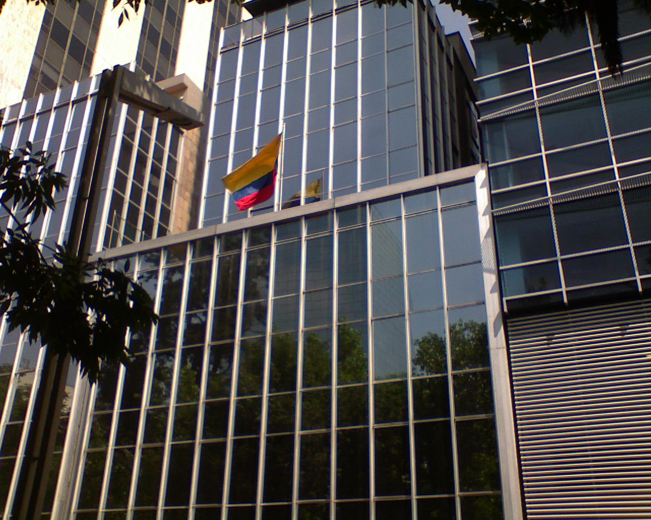 Embassy of Colombia in Mexico City